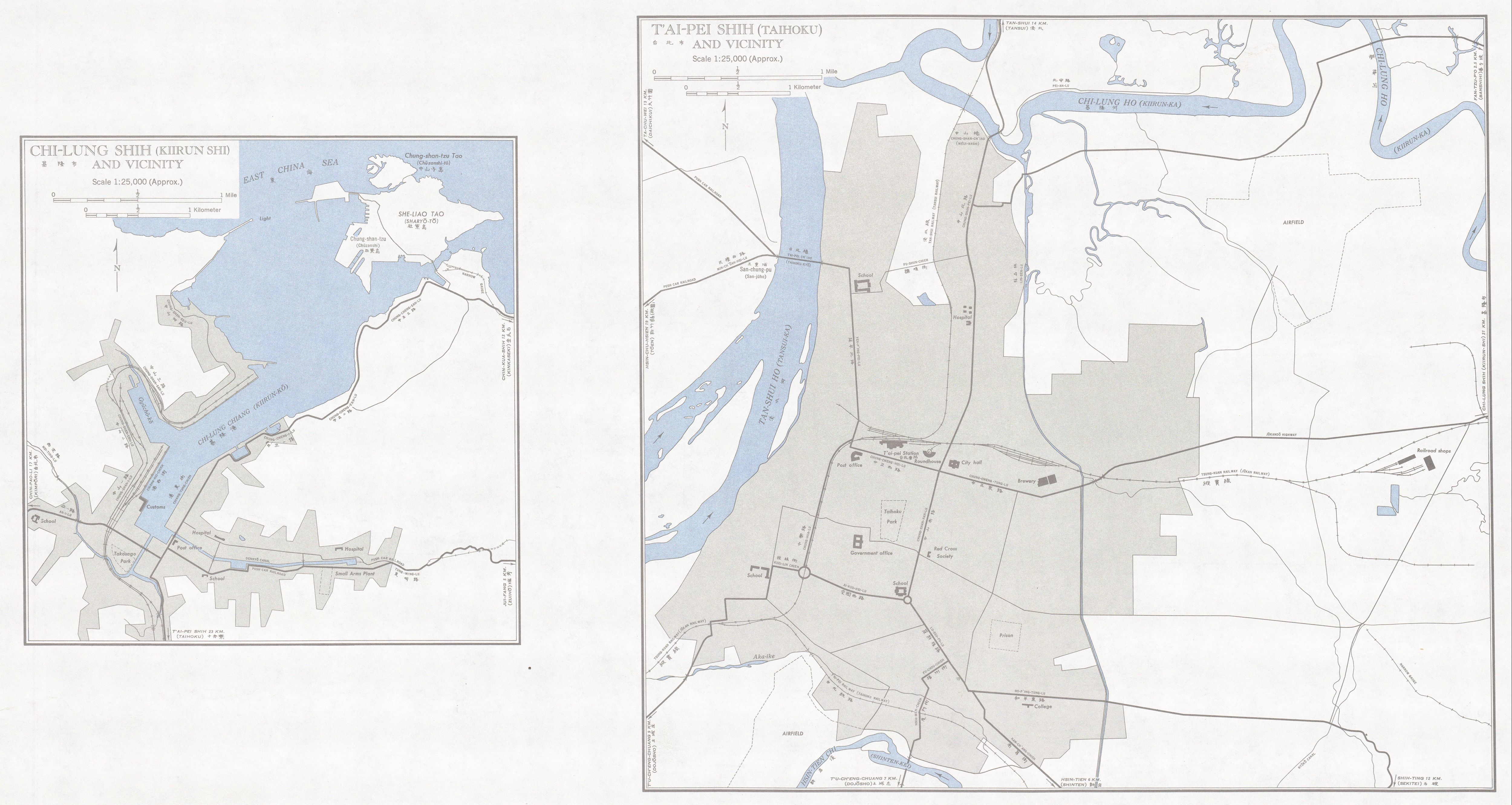 Tawian AMS Topographic Maps